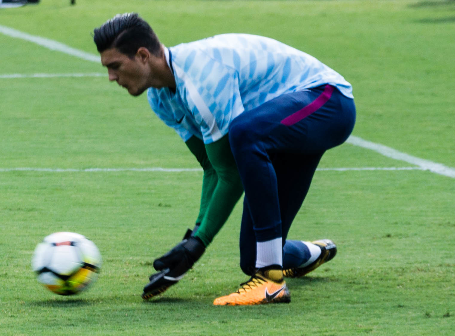 Manchester City vs Tottenham Hotspur at Nissan Stadium in Nashville, TN